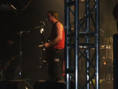 Taken by myself with my digital camera; more than happy to have it used as a visual representation of the festival.